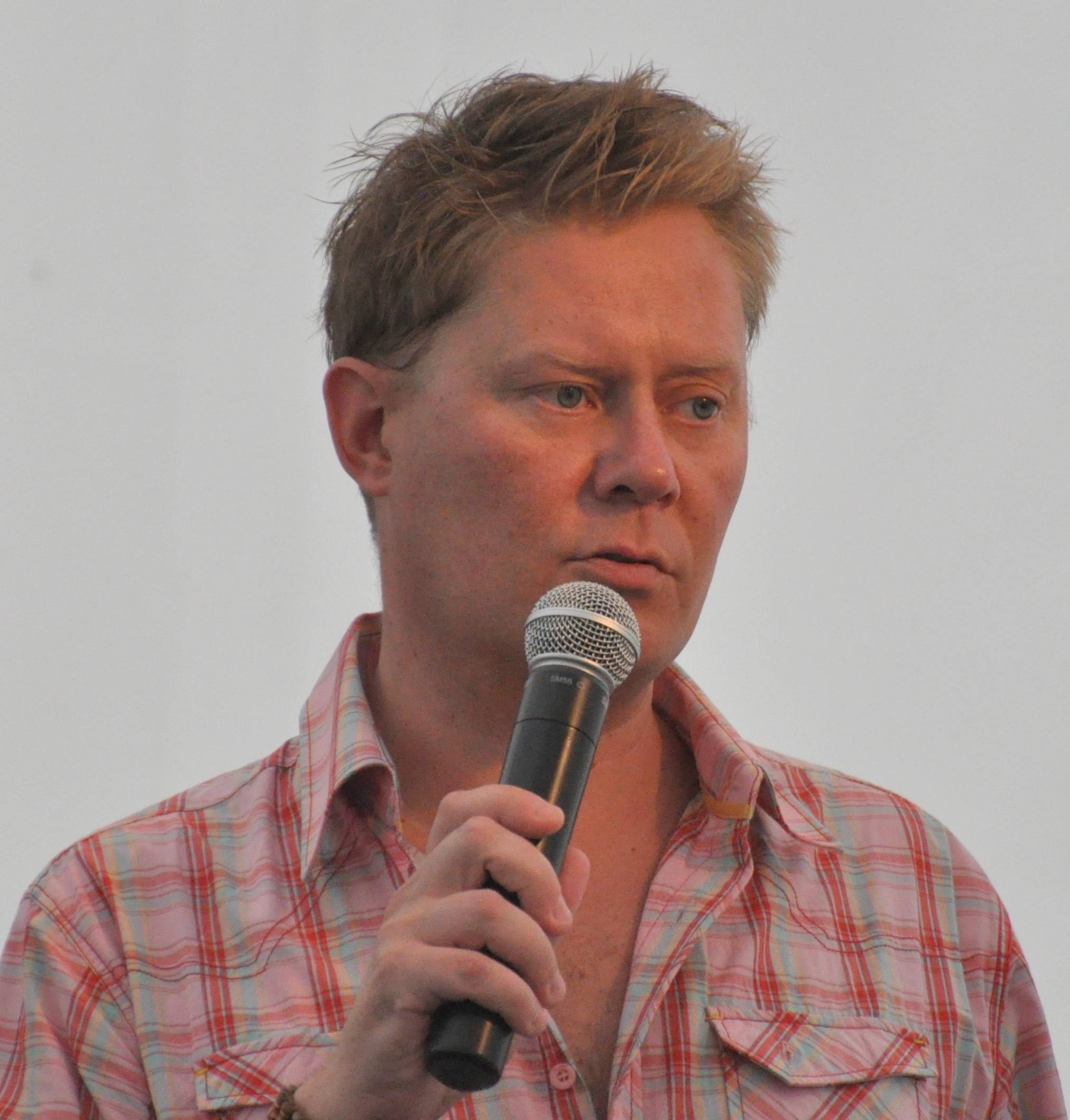 Finnish MP and radio presenter Pertti Salovaara at SuomiAreena 2010 in Pori